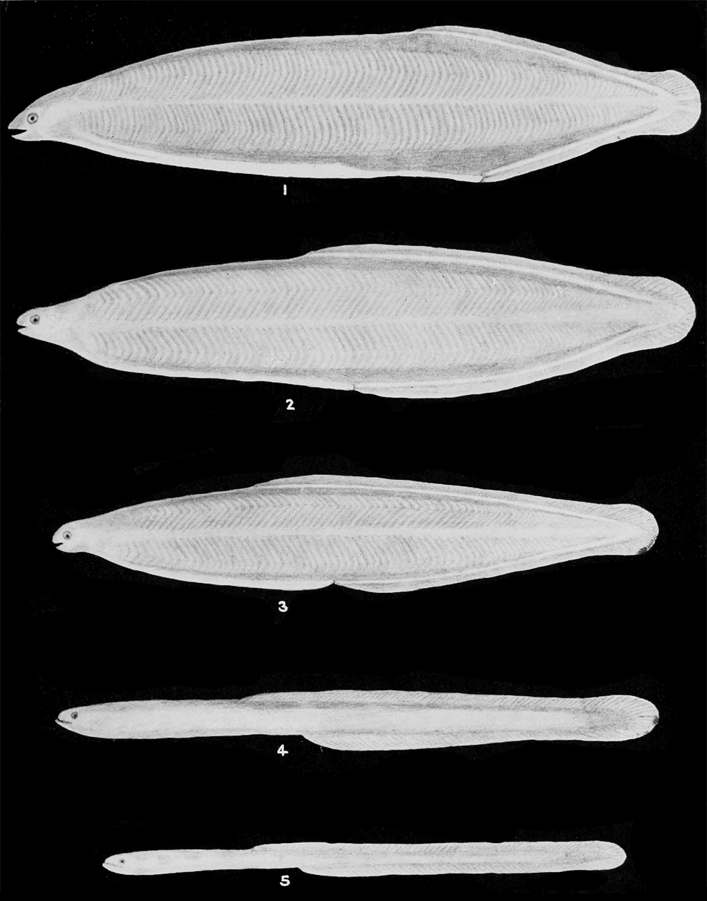 leptocéphale